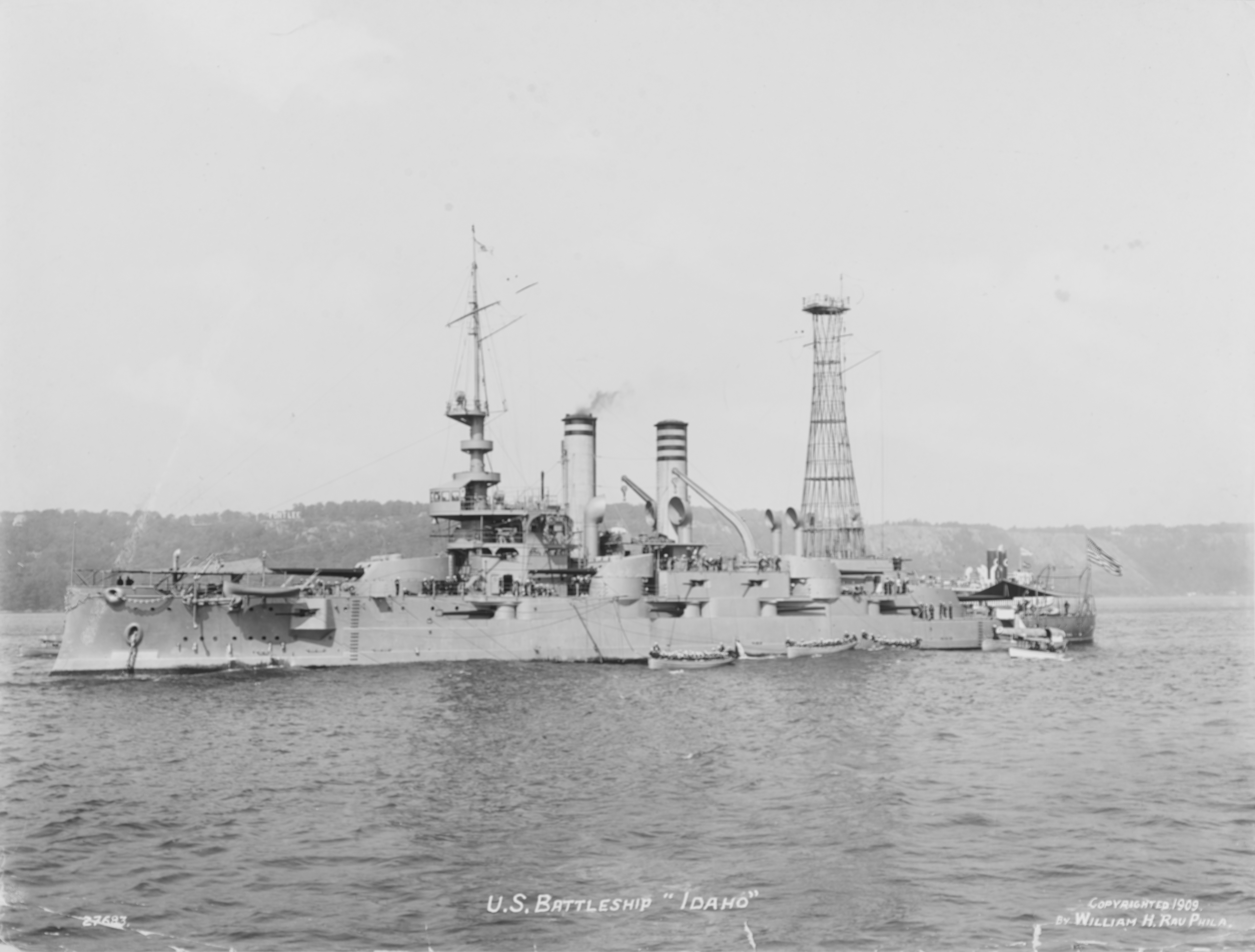 (Battleship # 24) In the Hudson River off Fort Lee, New York, 1909. Photographed by William H. Rau. U.S. Naval History and Heritage Command Photograph.